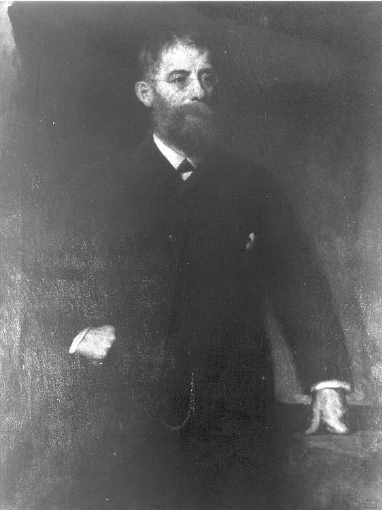 MD John Call Dalton Artist Eastman Johnson, 29 Jul 1824 - 5 Apr 1906 Sitter John Call Dalton, M.D., 1825 - 1889 Date 1886 Type Painting Medium Oil on canvas Dimensions 114.3cm x 86.3cm (45" x 34") Credit Line Current Owner: Columbia University, Art Properties Website: Object number COO.453 CU Data Source Catalog of American Portraits See more items in Catalog of American Portraits Place United States\New York\Kings\New York